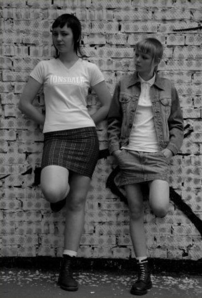 Skinheads.